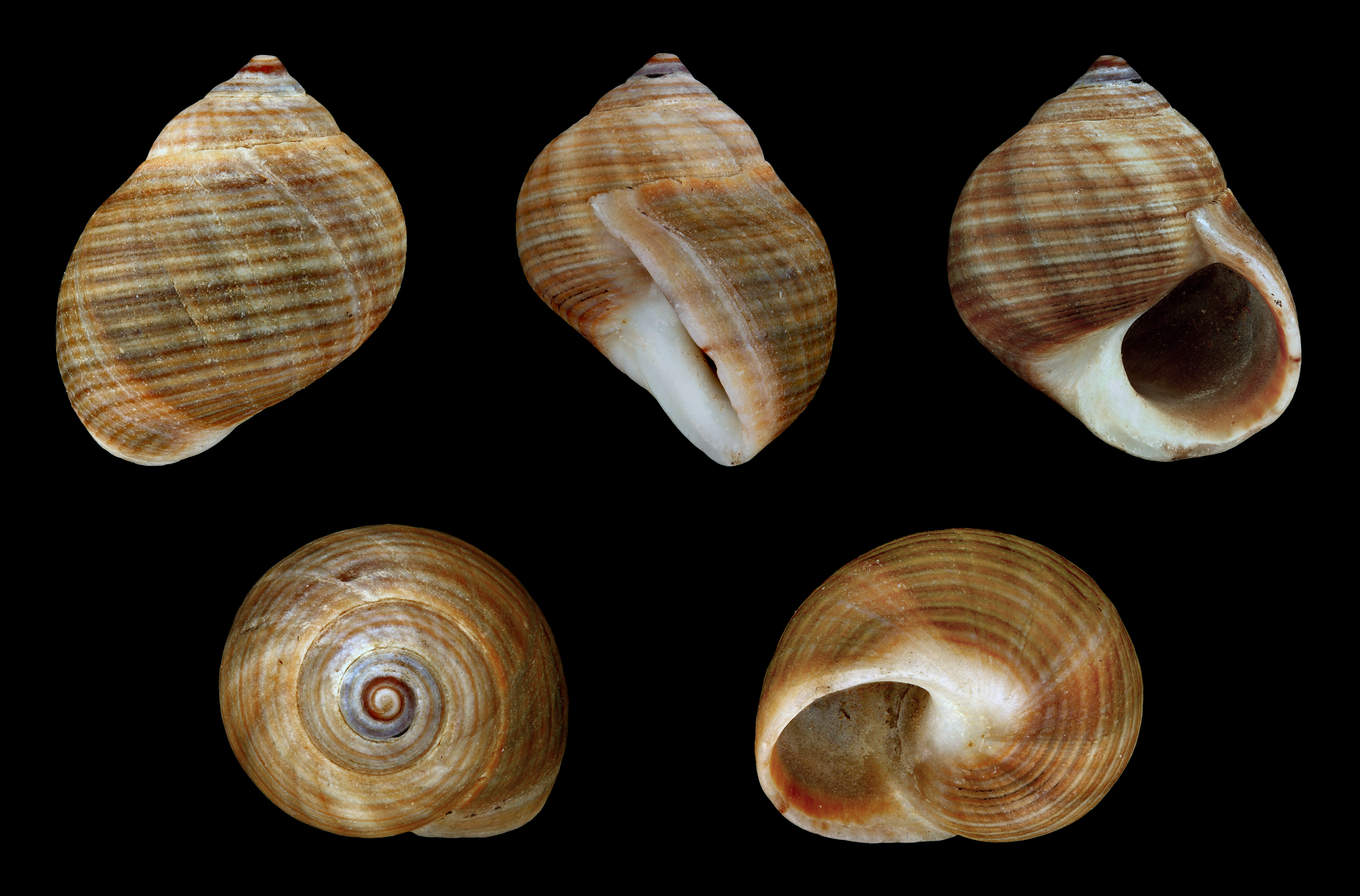 Common Periwinkle, Diameter 1,6 cm; Granville, Normandy, France; Shell of own collection, therefore not geocoded.